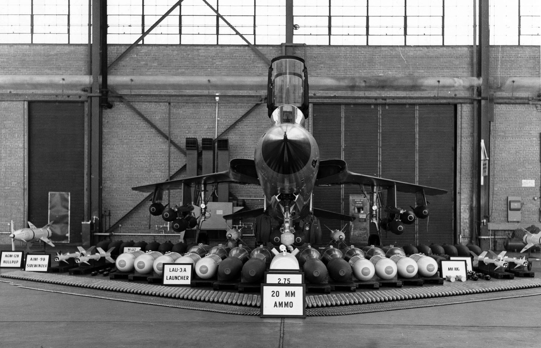 An U.S. Air Force Republic F-105F Thunderchief (s/n 62-4422) with armament layout in August 1964. The armament includes 20 mm cannon rounds, 2.75 in. rockets, AGM-12 Bullpup and AIM-9B Sidewinder missiles, general purpose bomb, cluster bombs, LAU-3A rocket launchers, flare and chaff dispensers and drop tanks.